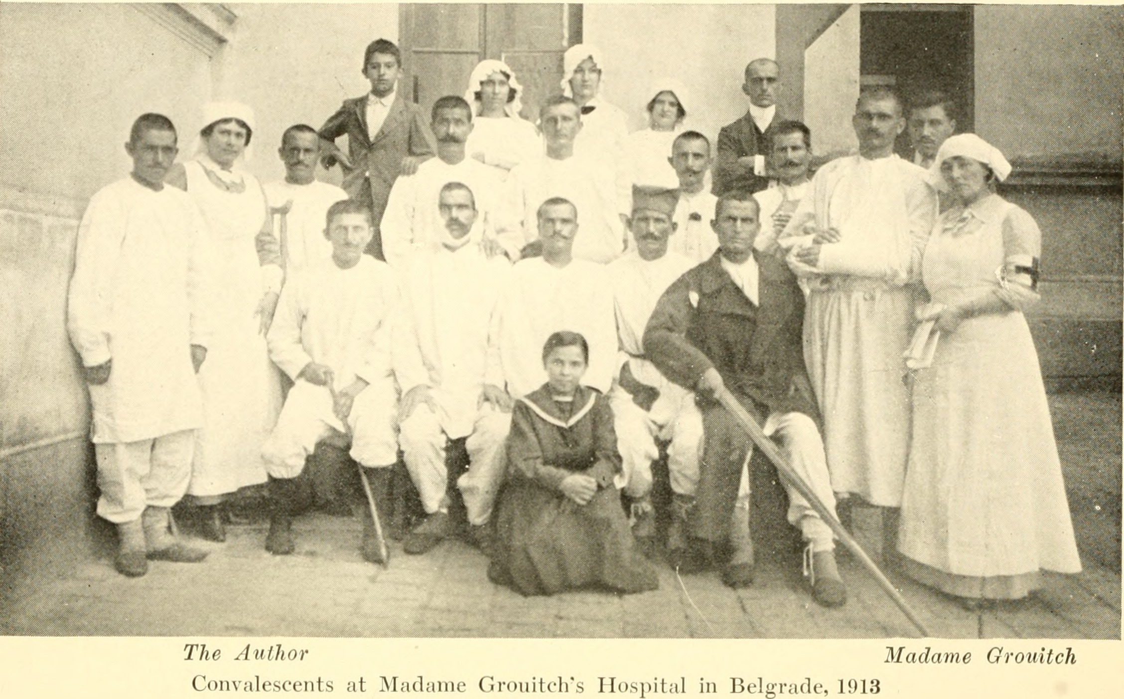 Title: A nation at bay, what an American woman saw and did in suffering Serbia Year: 1918 (1910s) Authors: Farnam, Ruth Mrs., (Stanley), 1873- (from old catalog) Subjects: World War, 1914-1918 World War, 1914-1918 World War, 1914-1918 Publisher: Indianapolis, The Bobbs-Merril company Text Appearing Before Image: Photograph used by the author on passports Text Appearing After Image: INTRODUCTION TO WAR IS hospital was of the crudest description. The bedson which the fevered soldiers lay were simply theiron frames with three pieces of board laid across.On this comfortless foundation were placed largesacks filled with straw. Smaller sacks formed thehard pillows. There was no bed linen and no clean cloth-ing. In the city there was a college, in whichyoung orphan girls from every part of Serbia were being trained as teachers. So we sentup there and to the extent of our funds, we gotsheets and pillow cases, of coarse cotton, andshirts and drawers for the men. These garments served a double purpose sincethey could be used first as hospital clothing andlater when a man left the hospital he had only toadd the heavy socks and untanned leather sandals,a home-spun waistcoat and wide girdle to be com-pletely clad in the peasant manner. One day a large bag was brought into the*Gymnasium, one of the wards, and its contentsdumped on the floor. There were about a dozengarments in